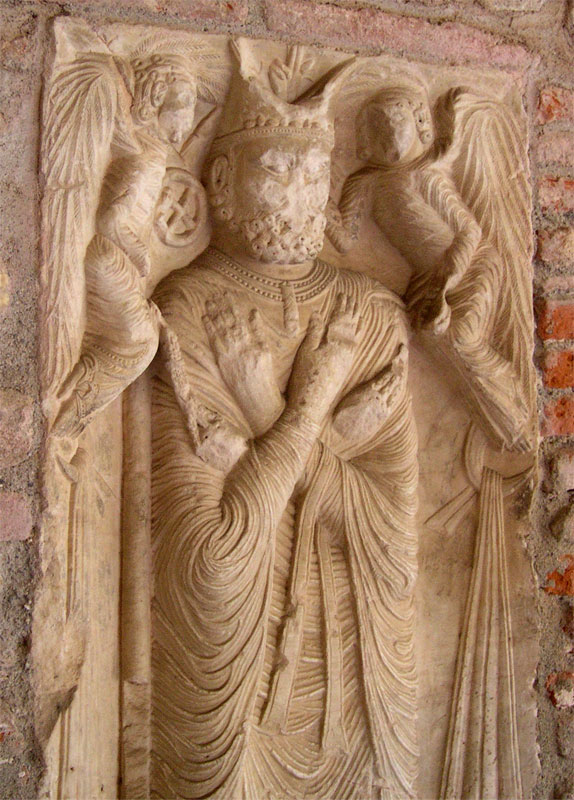 Cloister of Elna. Tombstone of Ramon de Villalonga. Ramon de Bianya